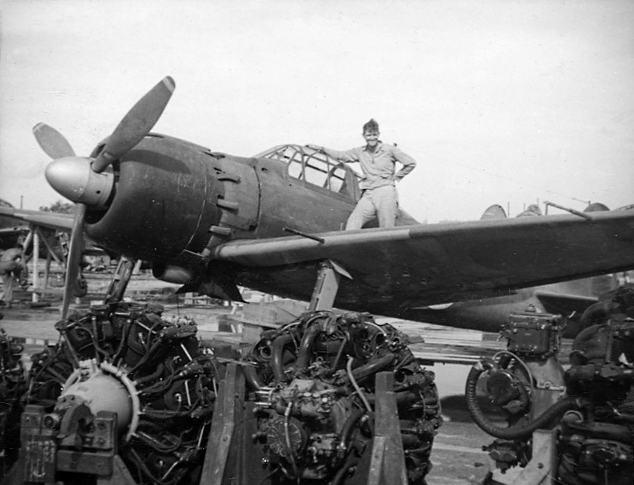 A U.S. Navy sailor stands on the wing of a captured Mitsubishi A6M5 Zero fighter on a Japanese airfield on Saipan in the Mariana Islands. In front are Nakajima Sakae (probably NK1F Sakae 21) engines.